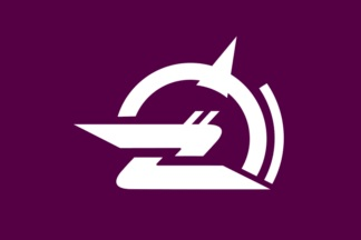 Flag of Goka Ibaraki